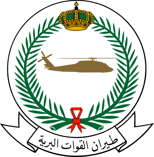 Roundel of the Royal Saudi Land Forces Aviation.